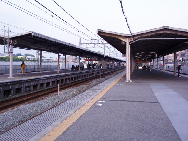 West Japan Railway Sanyo Main Line（JR Kobe Line） Akashi Station Platform